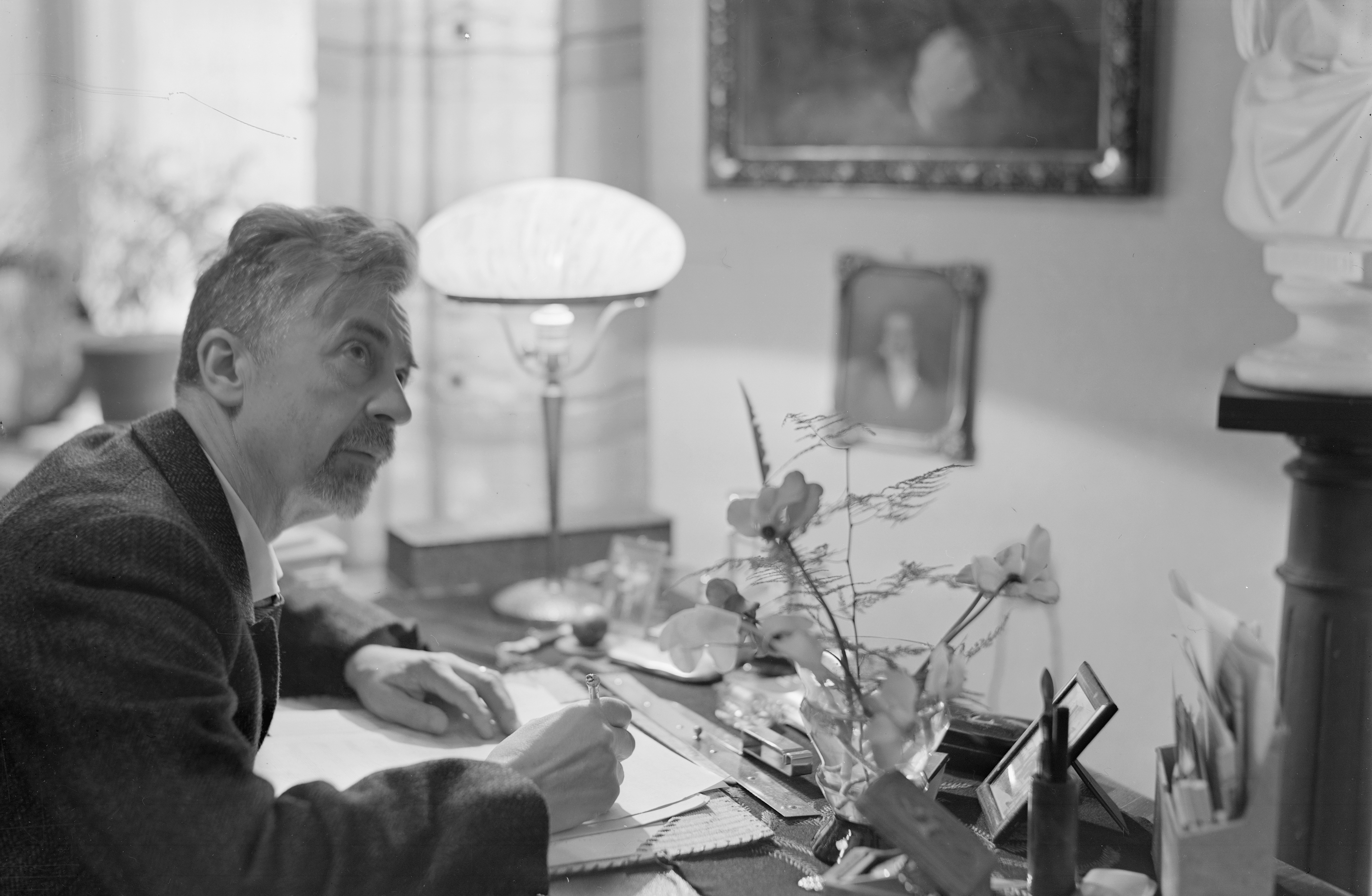 Photograph of the Finnish composer and musicologist Ilmari Krohn (1867–1960).